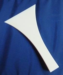 A picture of a plectrum for the Japanese three-stringed lute, or shamisen, particularly that of a minyo shamisen.